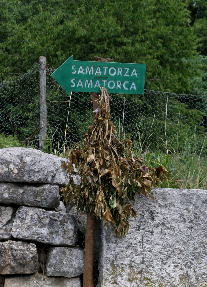 Branch signal for country wine on the Karst Plateau (Trieste, Italy)